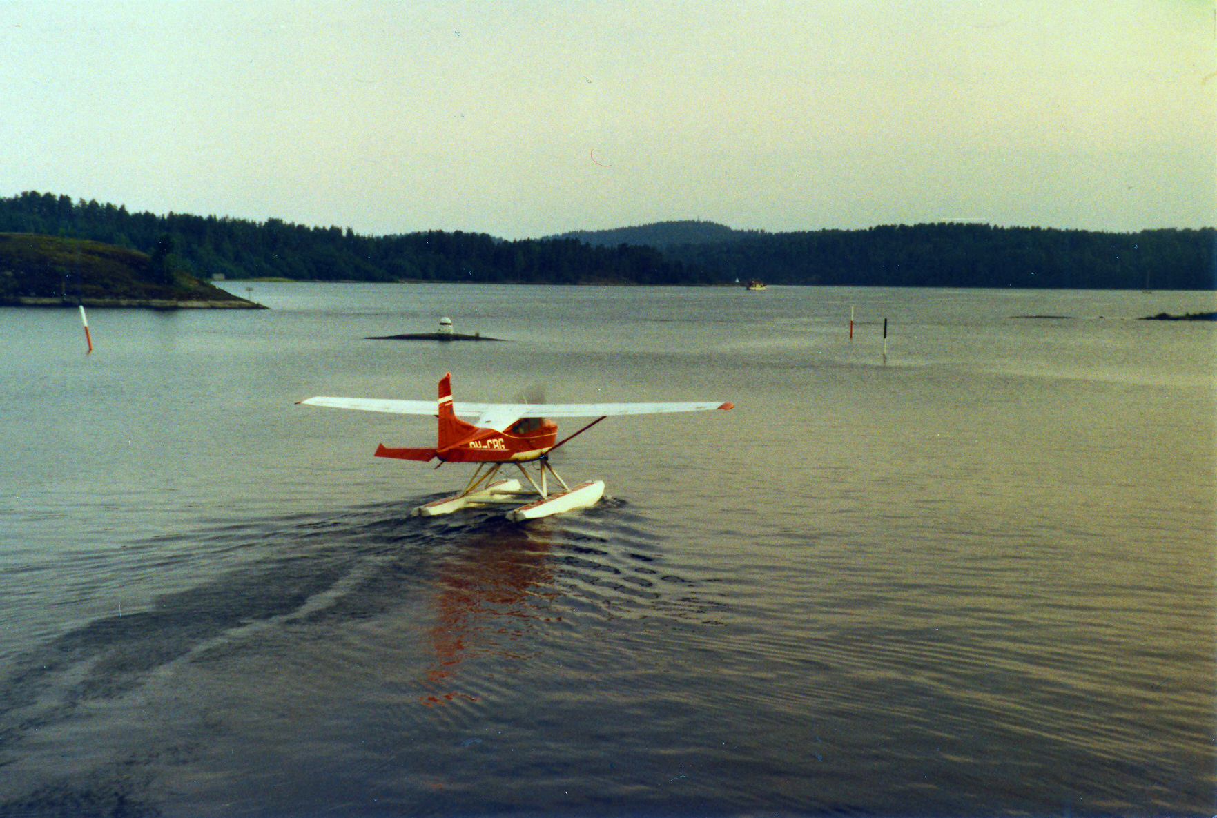 Seaplane OH-CBG in Savonlinna, Finland, in 1979